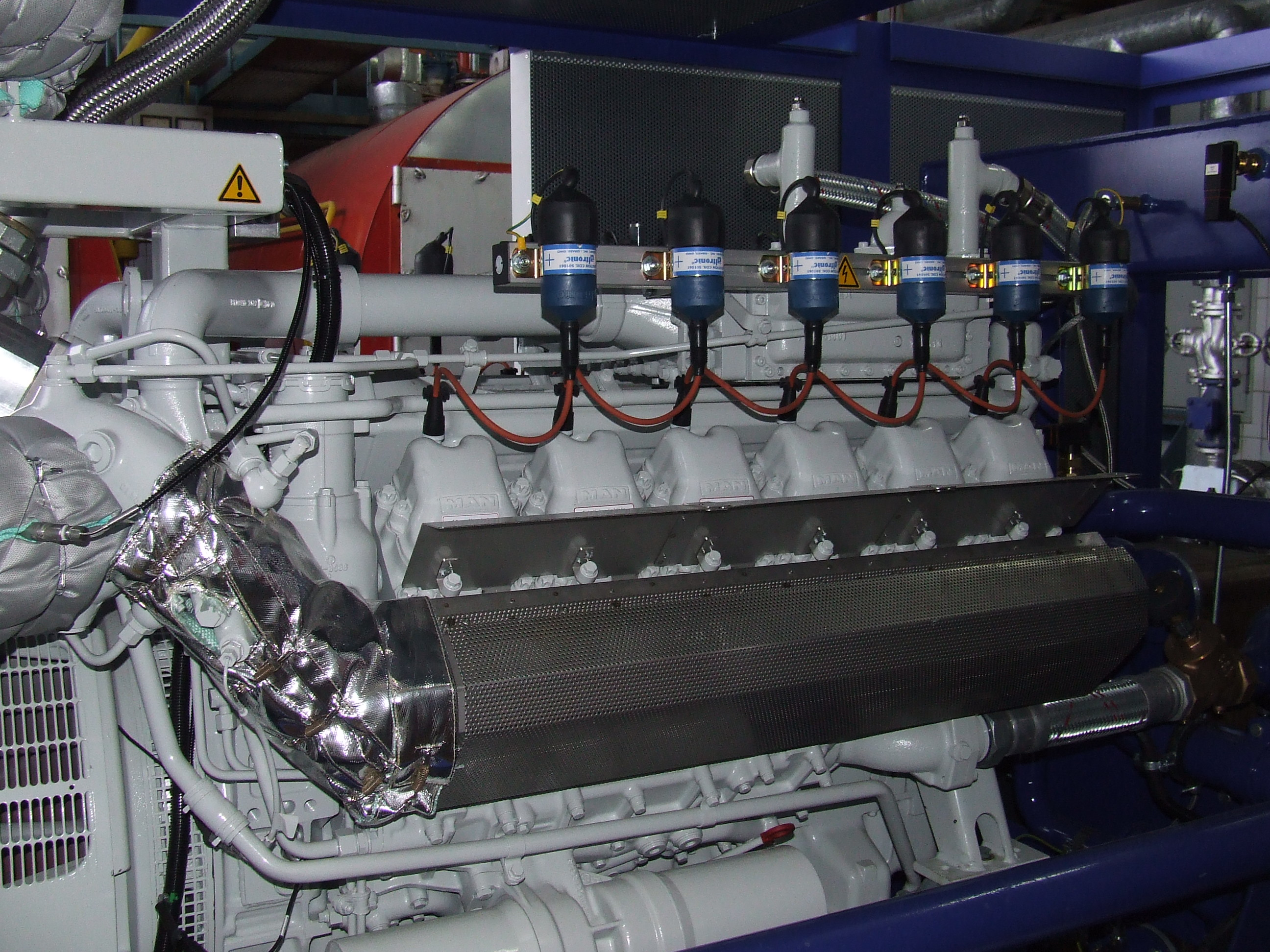 The new combined heat and power unit of the district heating station of the bavarian state bath Bad Steben. A 12 Cylinder MAN-Motor, fueled with Gas. The electrical power is 375 kW.